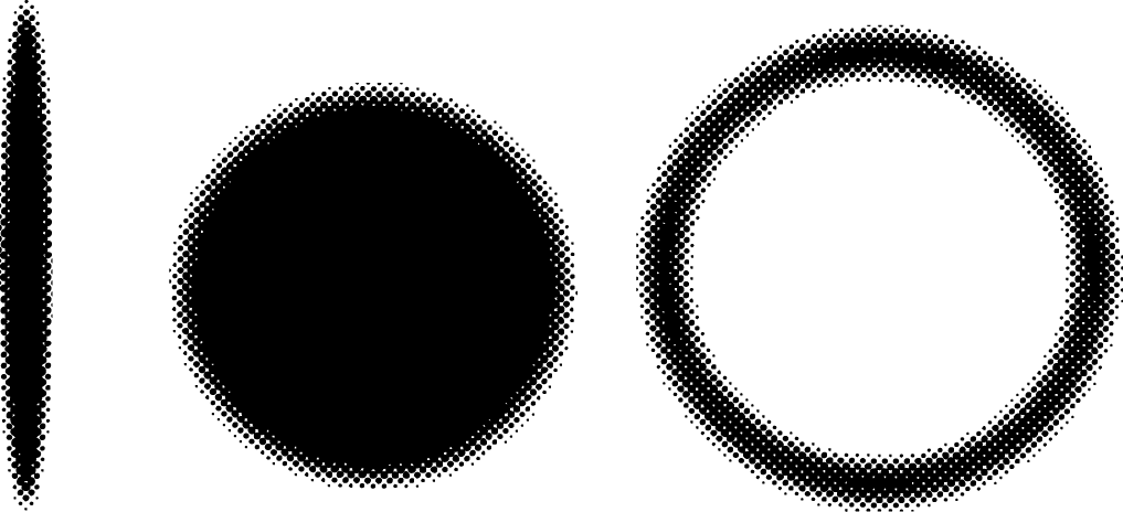 Spray footprint illustration